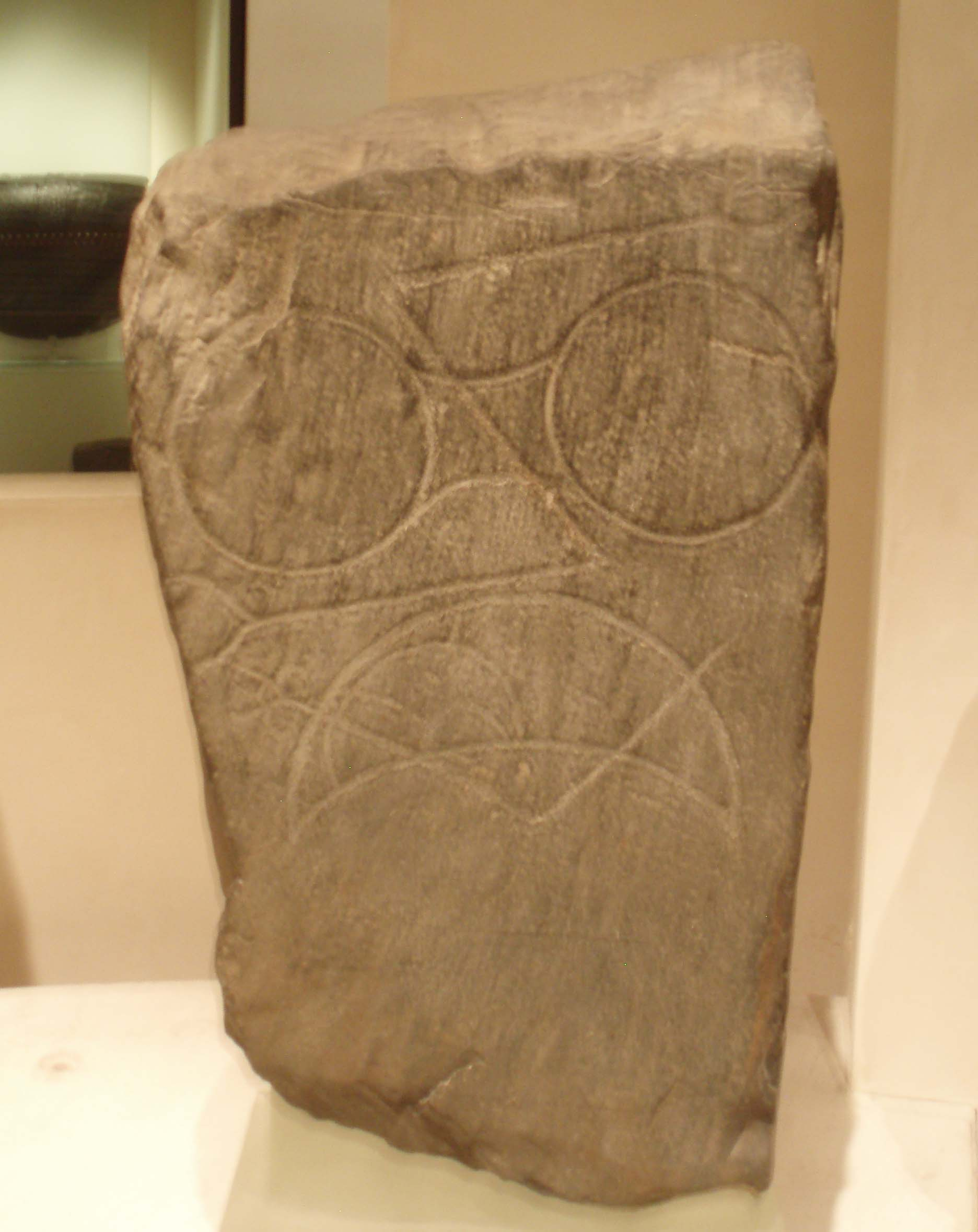 Class I Pictish symbol stone found on beach at Fiskavaig, Skye in 1921. On display at the Museum of Scotland, Edinburgh